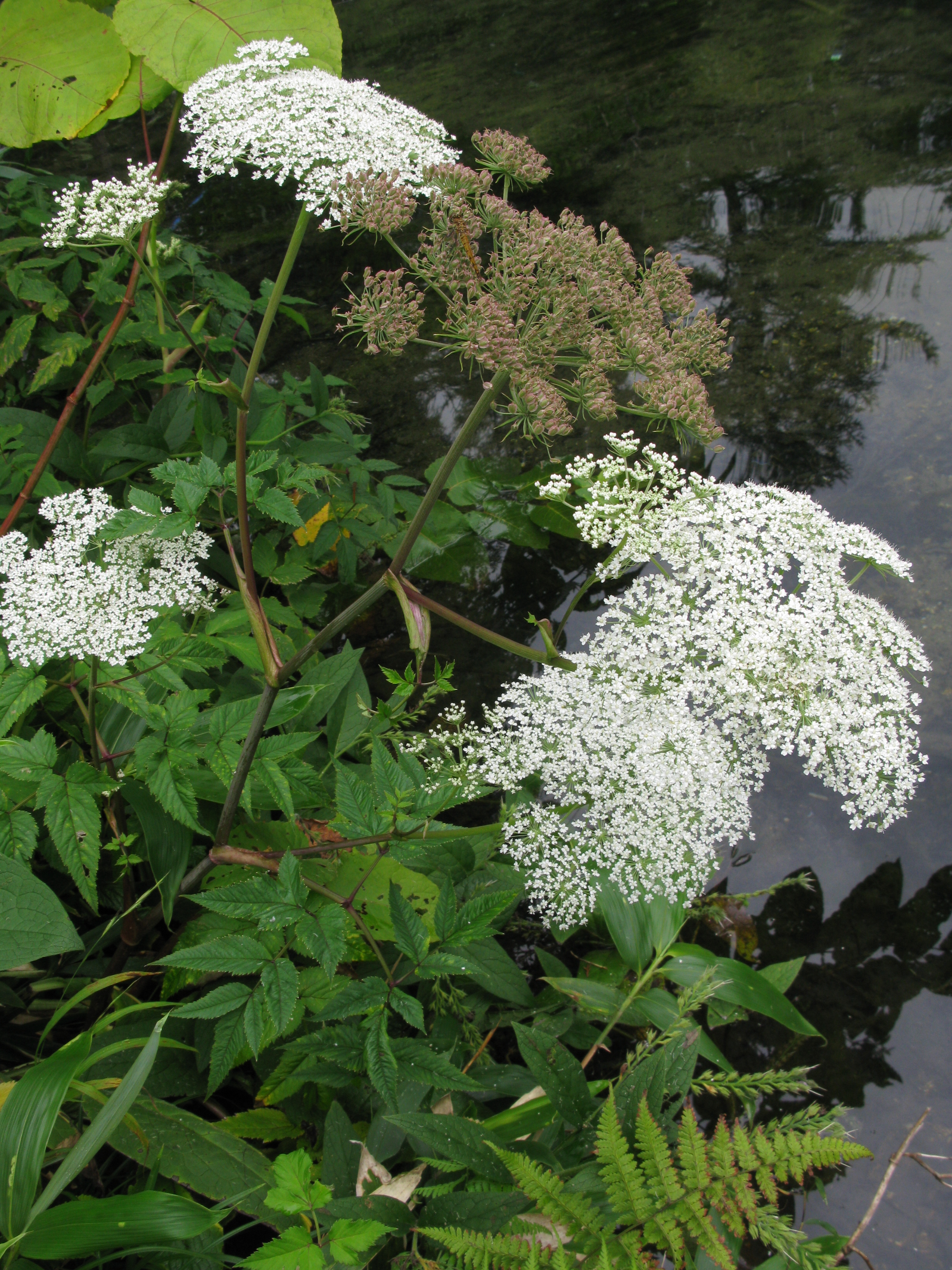 Angelica genuflexa, Mount Azuma, Fukushima pref., Japan